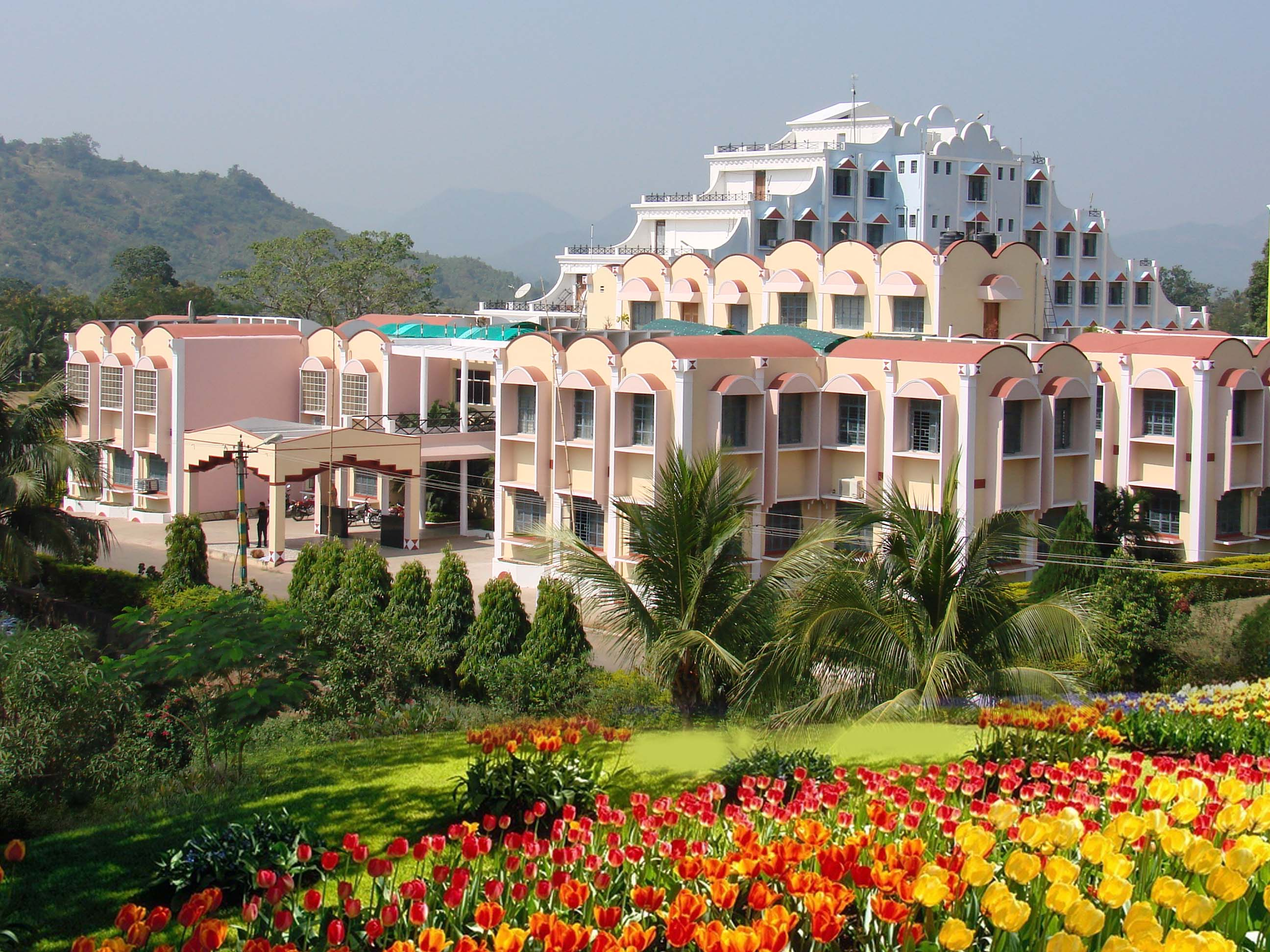 Administrative Block GIET